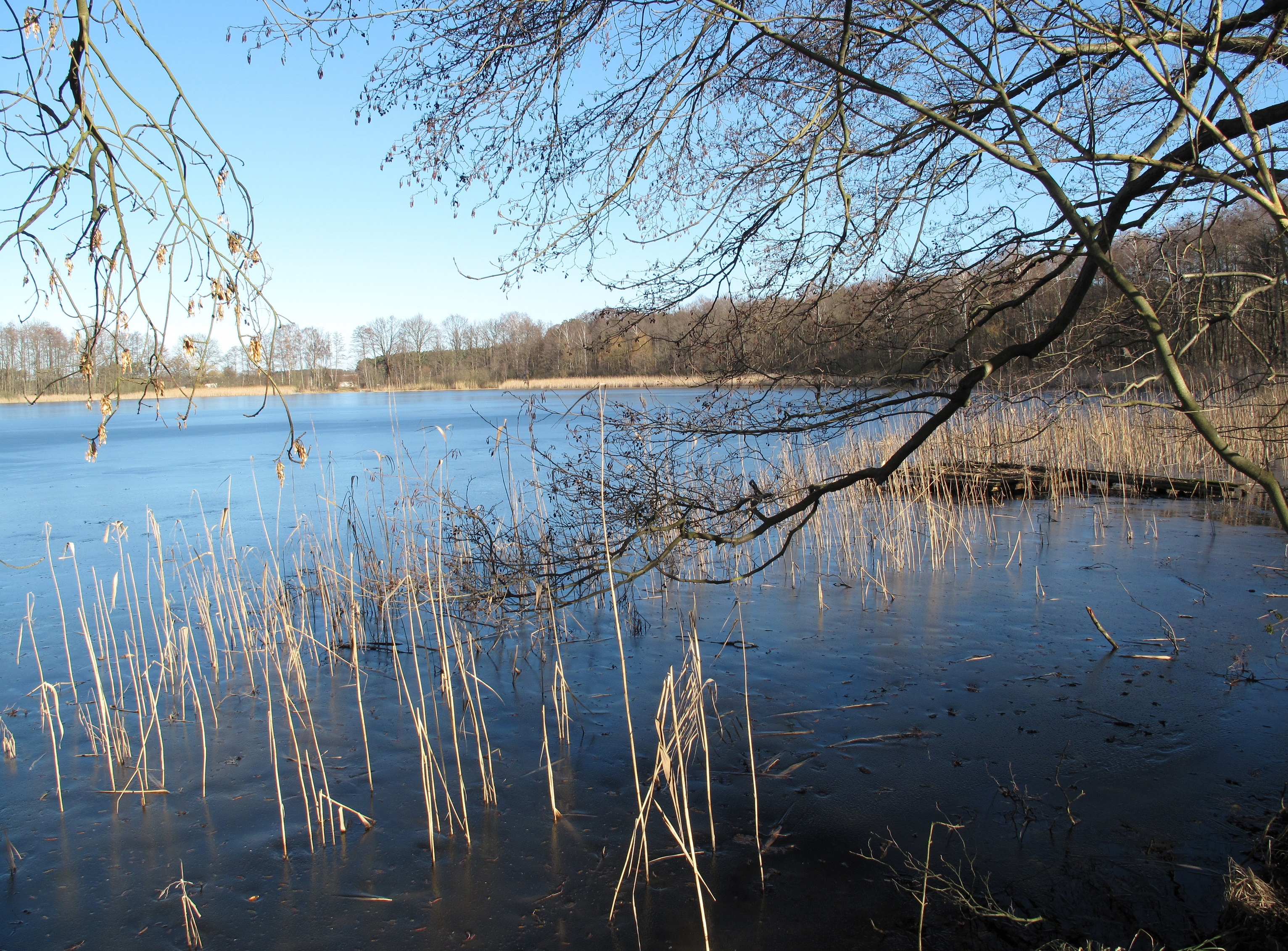 The Gutssee (former names: Wagenschützens See, Rittergutssee) is a lake in Streganz, a village of the municipality Heidesee, District Dahme-Spreewald, Brandenburg, Germany. The lake covers about 12 hectare and is situated in the Dahme-Heideseen Nature Park.